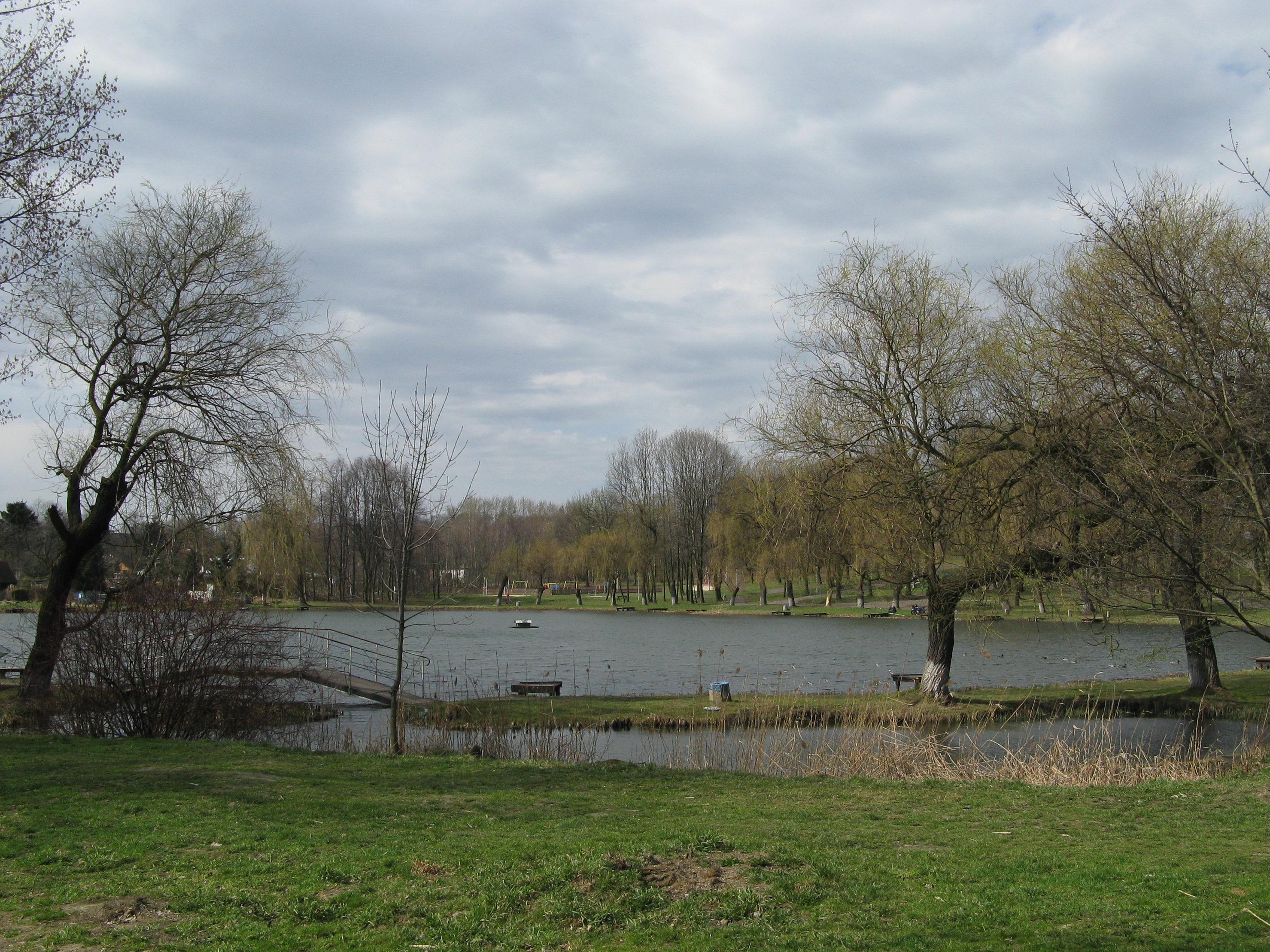 The Amendy pond in Amendy park in Bytom-Łagiewniki, Poland.